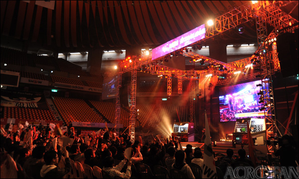 Ongamenet 2009 BATOO Starleague Grand final